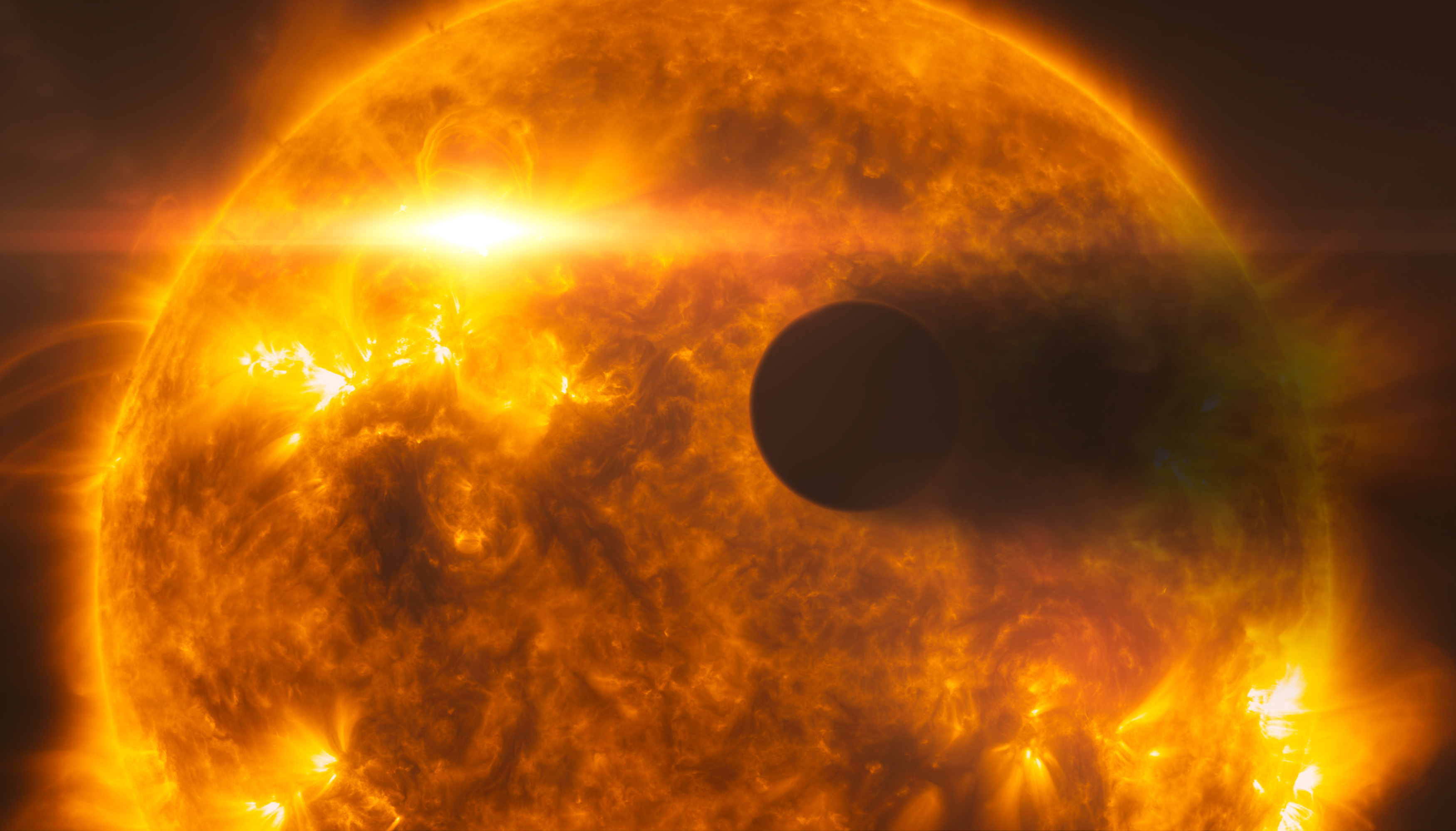 This artist’s impression shows exoplanet HD 189733b, as it passes in front of its parent star, called HD 189733A. Hubble’s instruments observed the system in 2010, and in 2011 following a large flare from the star (depicted in the image). Following the flare, Hubble observed the planet’s atmosphere evaporating at a rate of over 1000 tonnes per second. In this picture, the surface of the star, which is around 80% the mass of the Sun, is based on observations of the Sun from the Solar Dynamics Observatory.